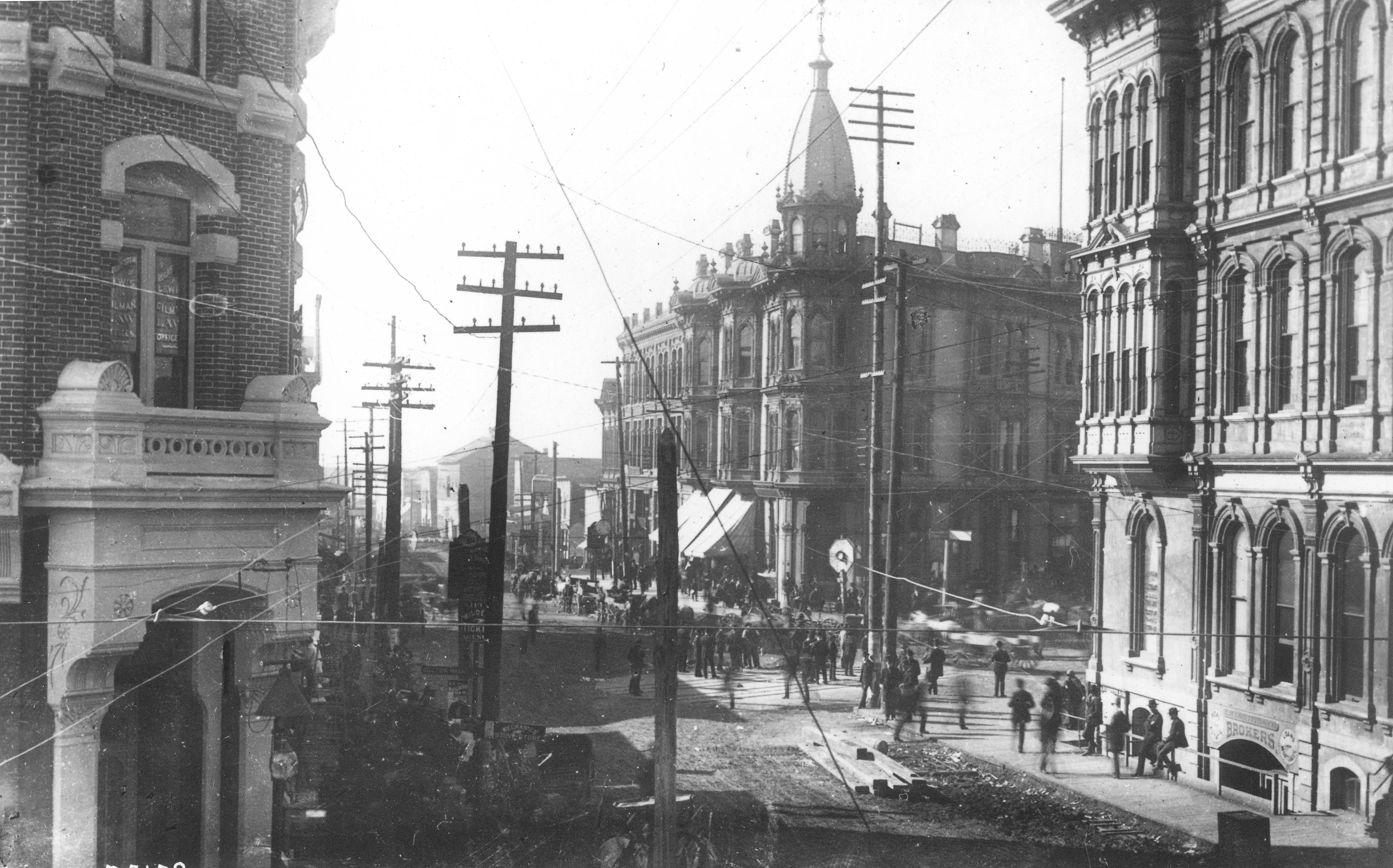 Shows the Occidental Hotel on right, Korn block on left, Yesler-Leary Building, center. Original photographer unknown. The following day this part of the city was destroyed by fire. Subjects (LCTGM): Streets--Hotels--Washington (State)--Seattle; Business districts--Washington (State)--Seattle Subjects (LCSH): Yesler Way (Seattle, Wash.) ; Washington (State)--Seattle ; Occidental Hotel (Seattle, Wash.) ; Yesler-Leary Building (Seattle, Wash.)